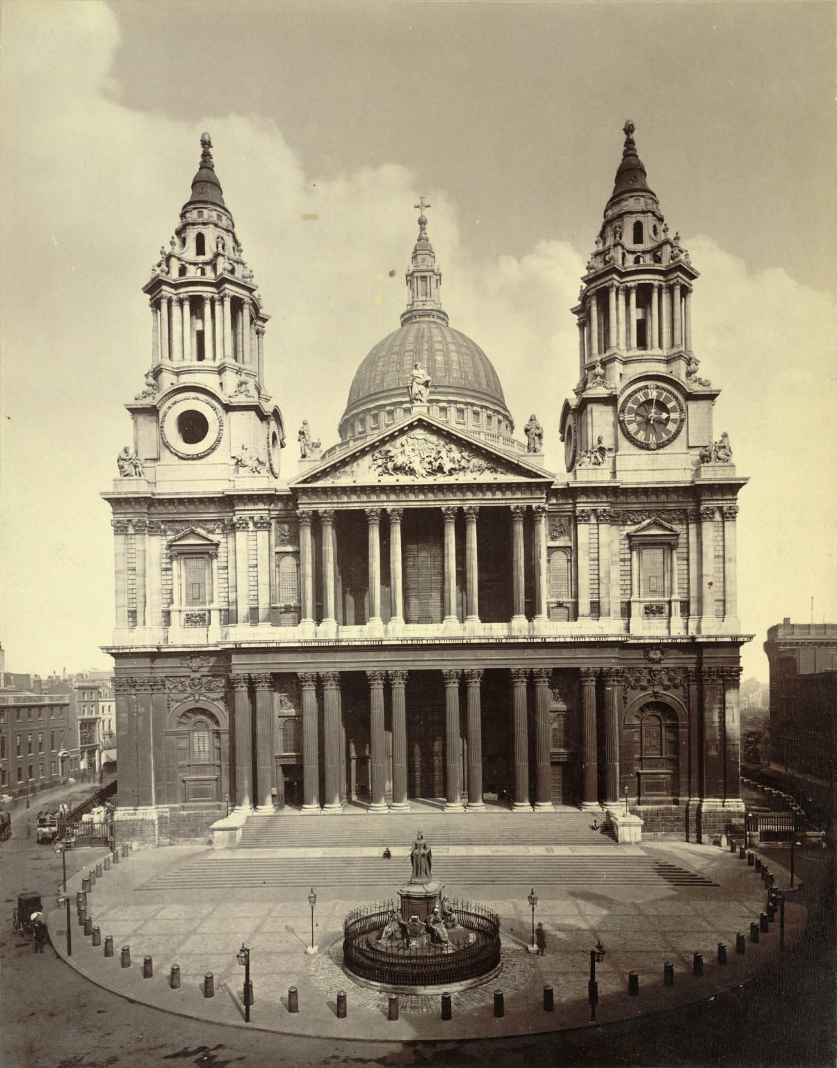 Collection: A. D. White Architectural Photographs, Cornell University Library Accession Number: 15/5/3090.01029 Title: London. St. Paul's Cathedral, West Front Architect: Sir Christopher Wren (English, 1632-1723) Building Date: 1675-1710 Photograph date: ca. 1865-ca. 1895 Location: Europe: United Kingdom; London Materials: albumen print Image: 11 x 8 9/16 in.; 27.94 x 21.7488 cm Style: Neoclassical Provenance: Gift of Andrew Dickson White Persistent URI: There are no known copyright restrictions on this image. The digital file is owned by the Cornell University Library which is making it freely available with the request that, when possible, the Library be credited as its source. We had some help with the geocoding from Web Services by Yahoo! This image is from the Cornell University Library's The Commons Flickr stream. The Library has determined that there are no known copyright restrictions. This image was taken from Flickr's The Commons. The uploading organization may have various reasons for determining that no known copyright restrictions exist, such as: The copyright is in the public domain because it has expired; The copyright was injected into the public domain for other reasons, such as failure to adhere to required formalities or conditions; The institution owns the copyright but is not interested in exercising control; or The institution has legal rights sufficient to authorize others to use the work without restrictions. More information can be found at Please add additional copyright tags to this image if more specific information about copyright status can be determined. See Commons:Licensing for more information.No known copyright restrictionsNo restrictions